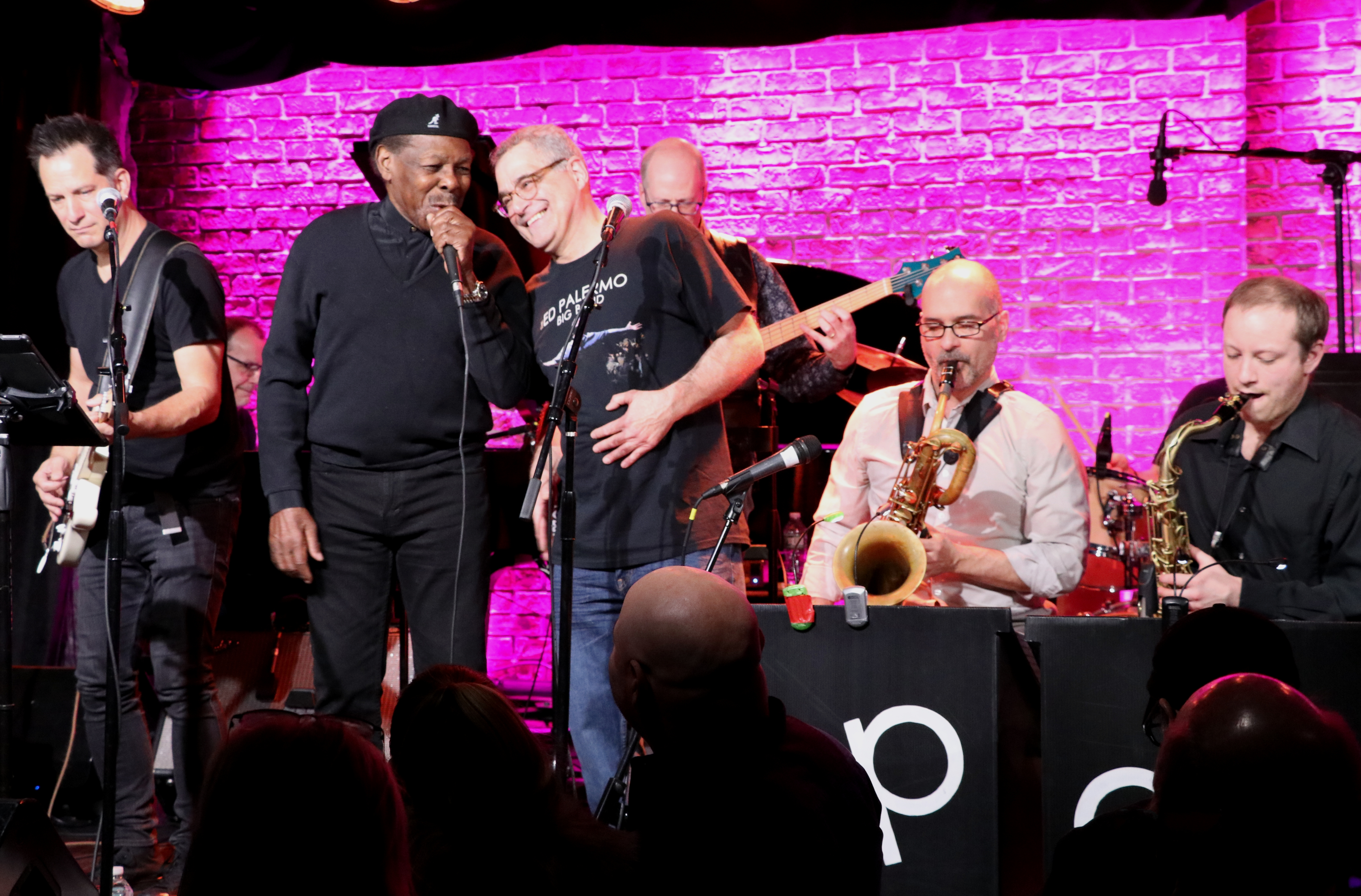 Lloyd Price with the Ed Palermo Big Band